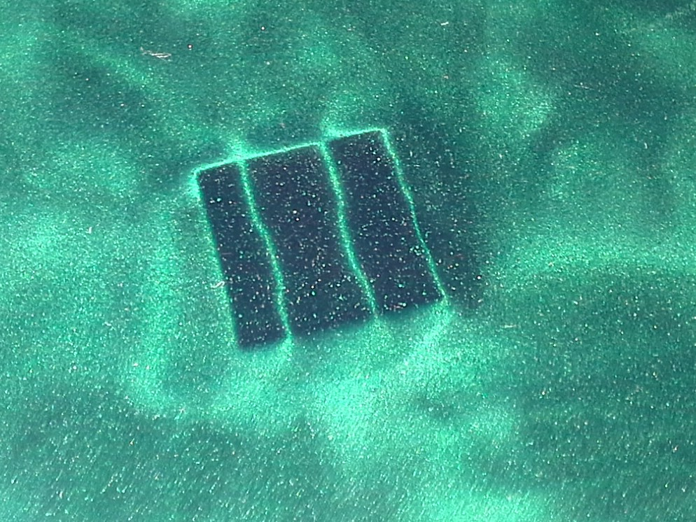 Magnetic field viewing film on a simple small Refrigerator magnet